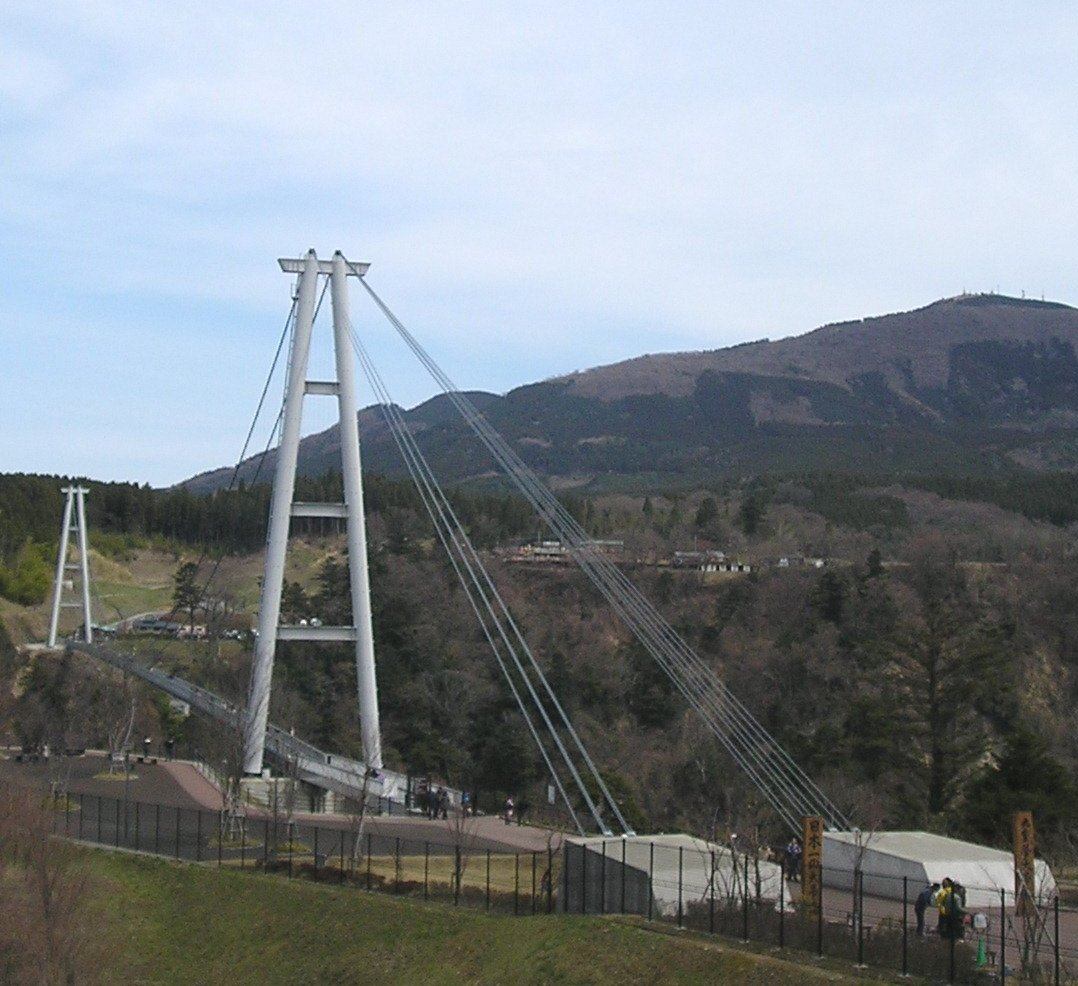 Kokonoe Yume (dream) Suspension Bridge, Kokonoe, Oita, Japan